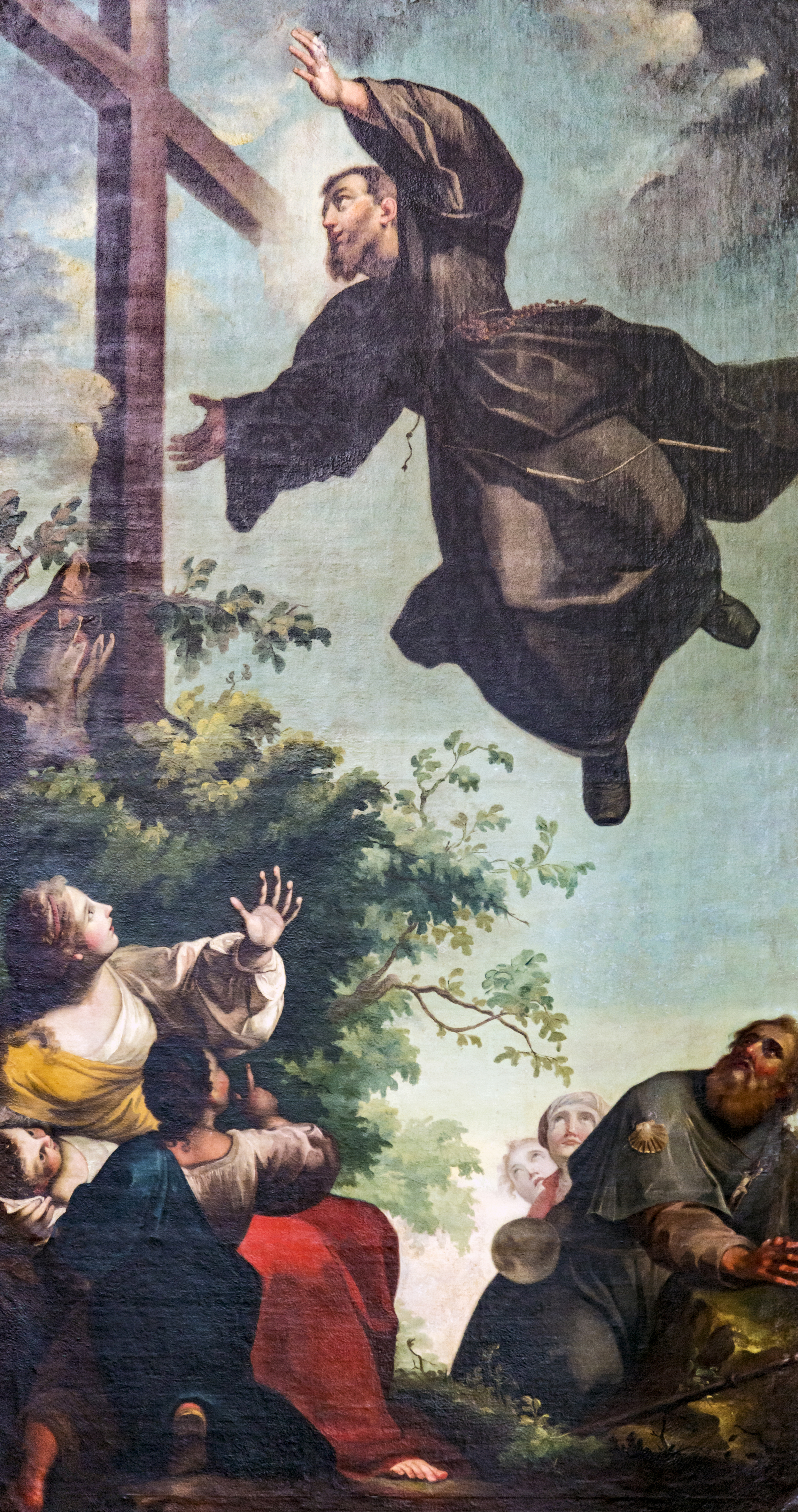 Church San Lorenzo in Vicenza - Nave left - Third span, St. Joseph of Cupertino in ectasy by Felice Boscaratti (Ca 1762).